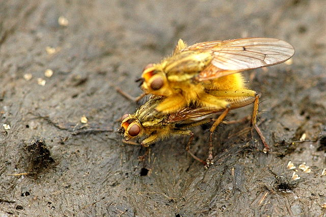 Picture taken in Commanster, Belgian High Ardennes . Species: Scathophaga stercoraria couple